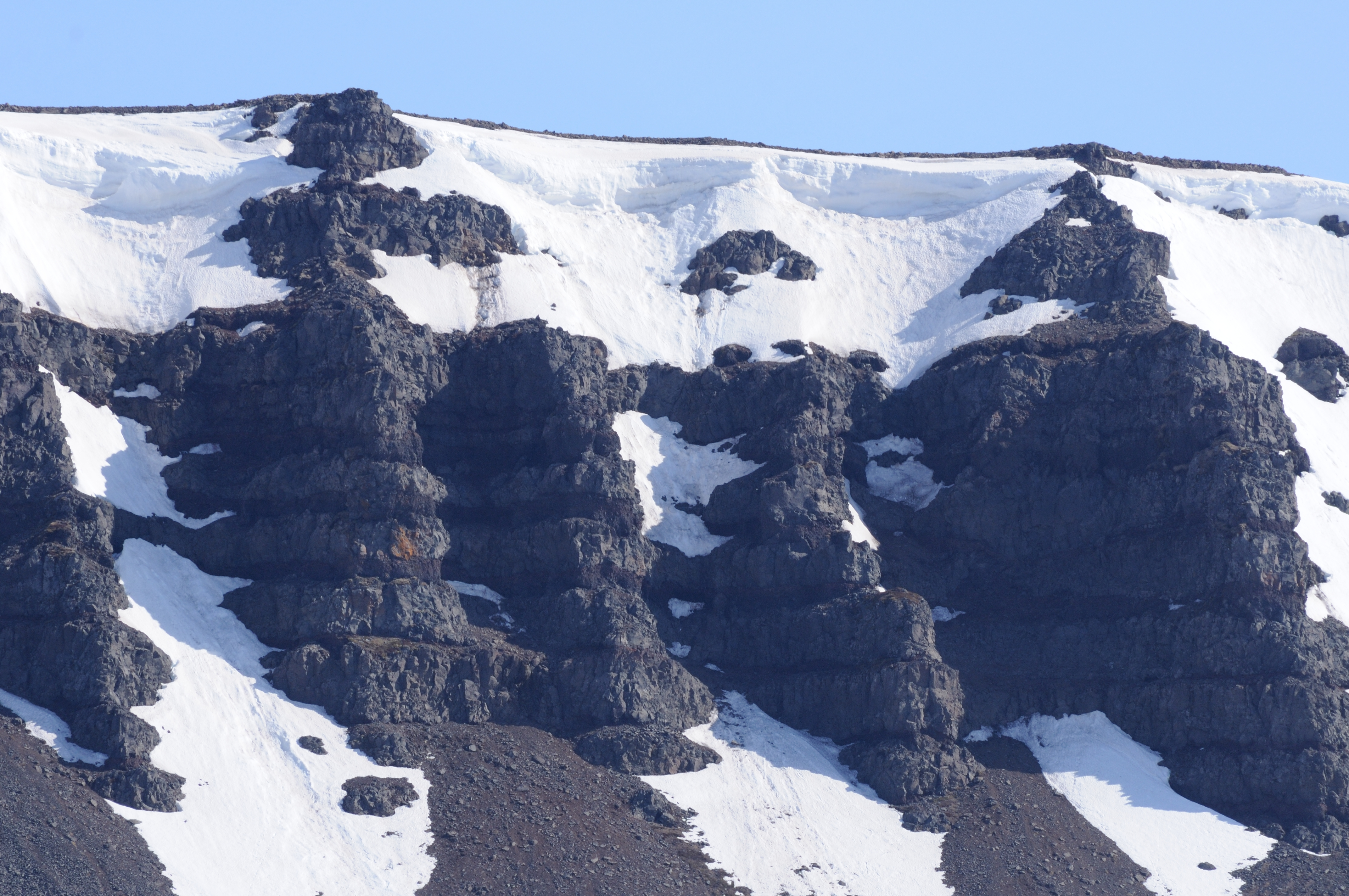 Iceland, impressions along road 76